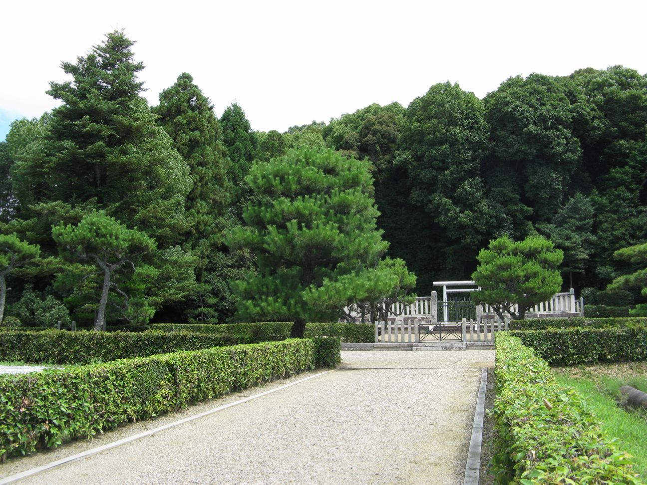 Front view of the mausoleum of Emperor Itoku in Nara.